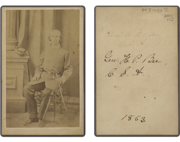 Title: Brig. Gen. H. P. Bee, C. S. A. Alternative Title: [Brigadier General Hamilton Prioleau Bee, Confederate States Army] Part Of: Lawrence T. Jones III Texas photography collection Physical Description: 1 photographic print on carte de visite mount; 10 x 6 cm. Rights: Please cite DeGolyer Library, Southern Methodist University when using this file. A high-resolution version of this file may be obtained for a fee. For details see the web page. For other information, . For more information, View Lawrence T. Jones III Texas Photographs